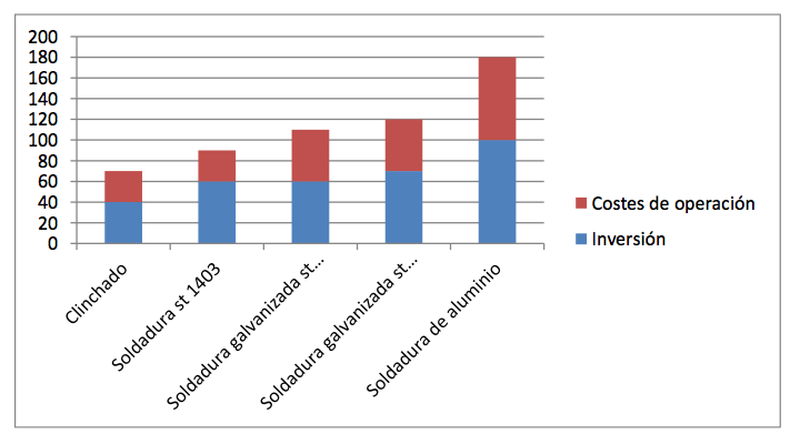 Comparison of cost of different joinings